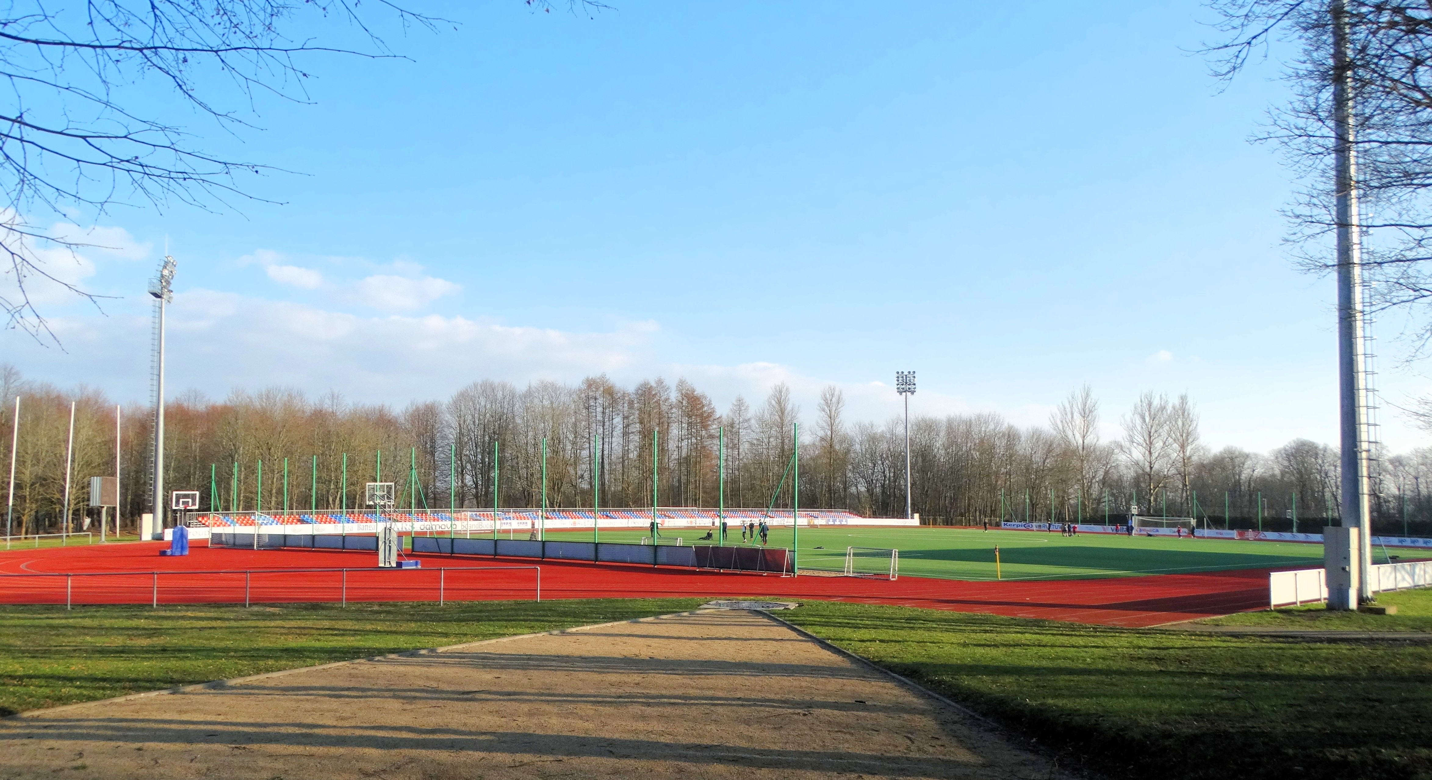 Stadium, Gargždai, Lithuania